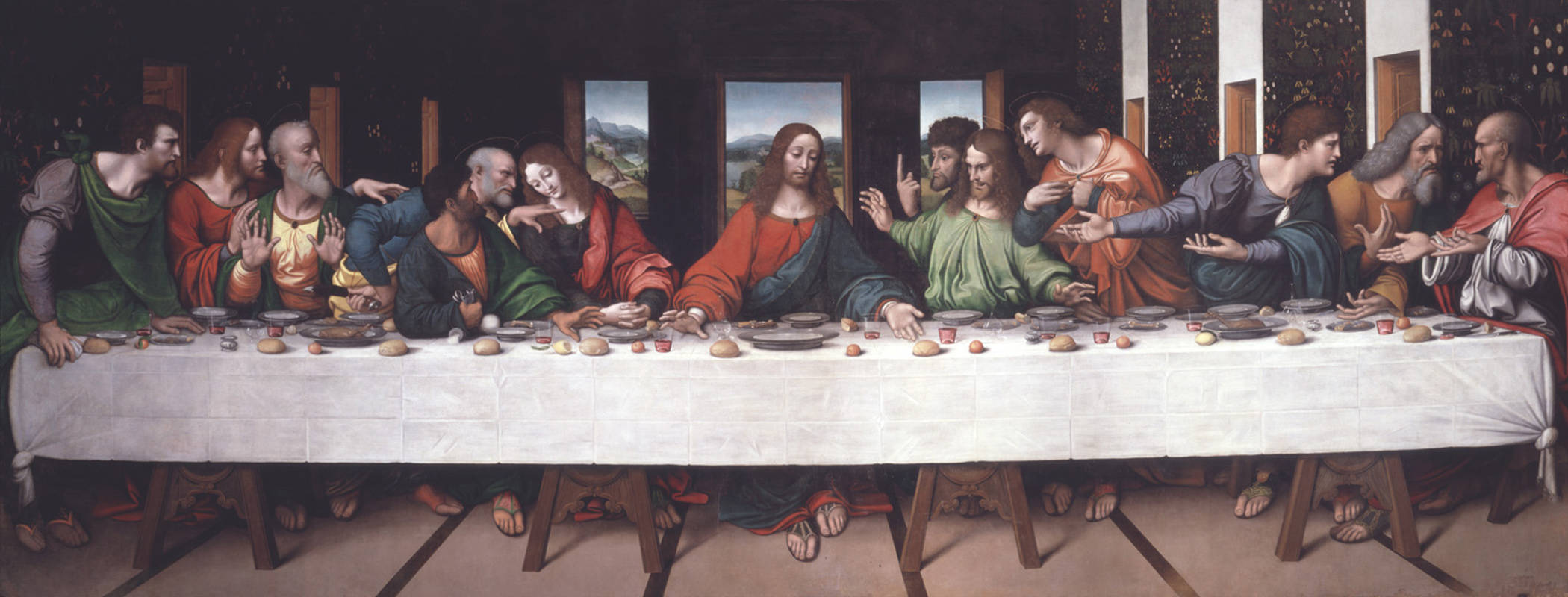 full-scale copy that was the main source for the twenty-year restoration of the original (1978-1998). It includes several lost details such as Christ's feet, the transparent glass decanters on the table, and the floral motifs of the tapestries that decorate the room's interior. --- It was first mentioned in 1626 by the author Bartolomeo Sanese as hanging in the Certosa di Pavia, a monastery near Pavia, Italy, but it is unlikely that it was intended for this location. At some point, the upper third of the picture was cut off, and the width was reduced. --- Giampietrino is thought to have worked closely with Leonardo when he was in Milan. --- (Note: A very fine, full-size copy of this painting, before it was cut down, is installed at Tongerlo Abbey in Westerlo, near Antwerp, Belgium.)